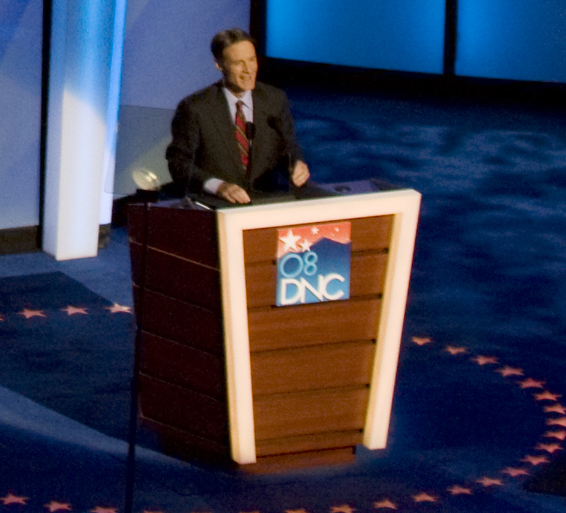 Evan Bayh speaking at the 2008 DNC